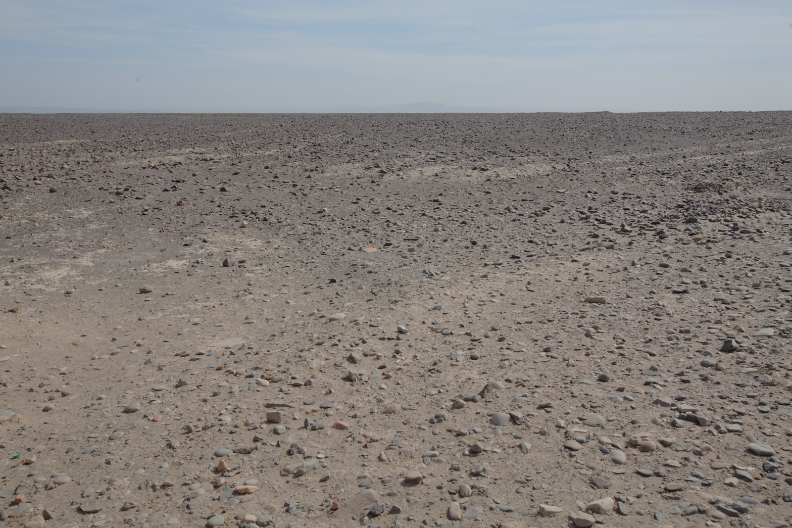 Nazca Lines from 1.5m in height. Tree image is taken in this picture from Mirador.